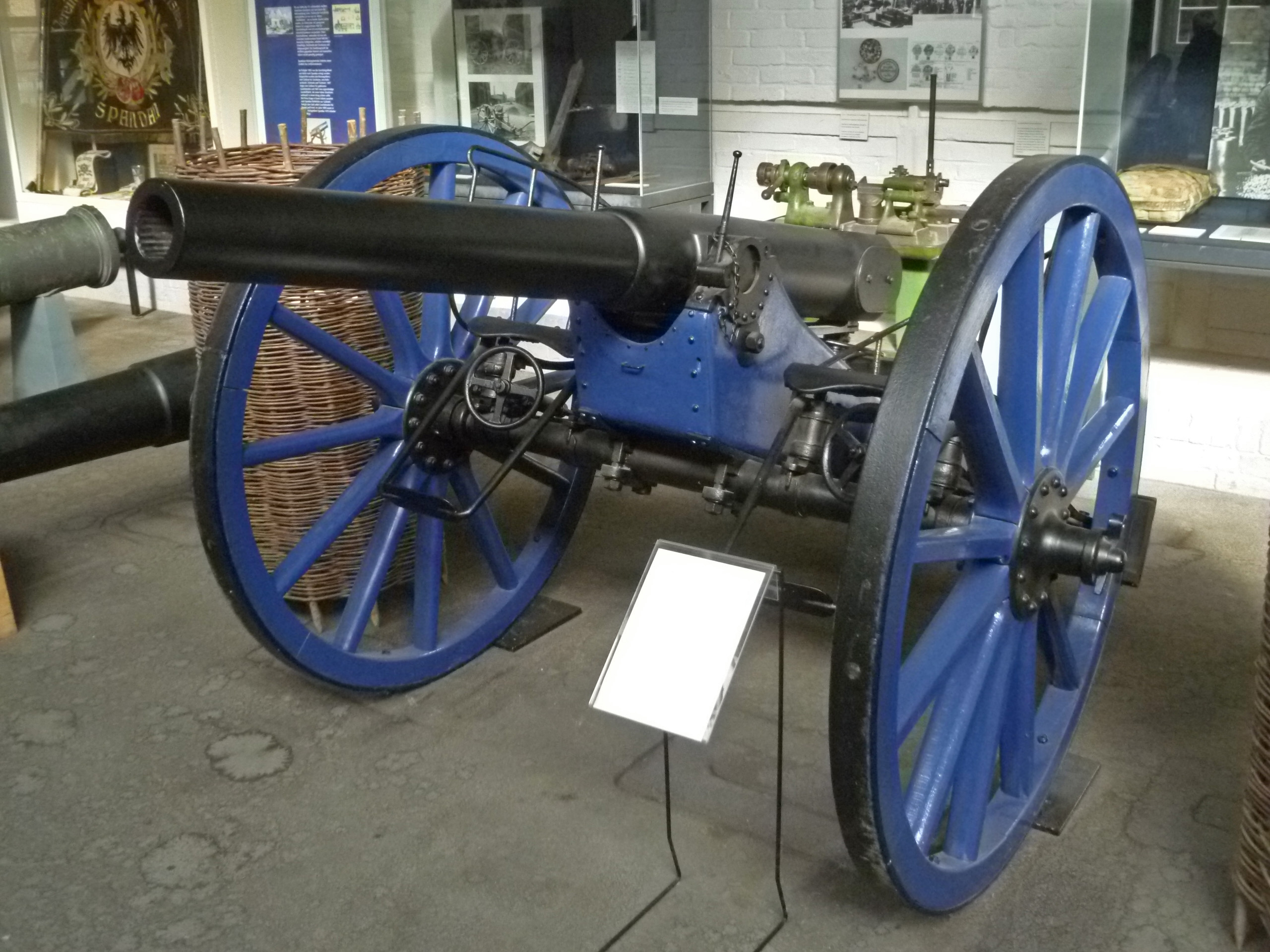 German field gun C 73 (model 1873); exhibition in the Spandau Citadel, Spandau, Germany